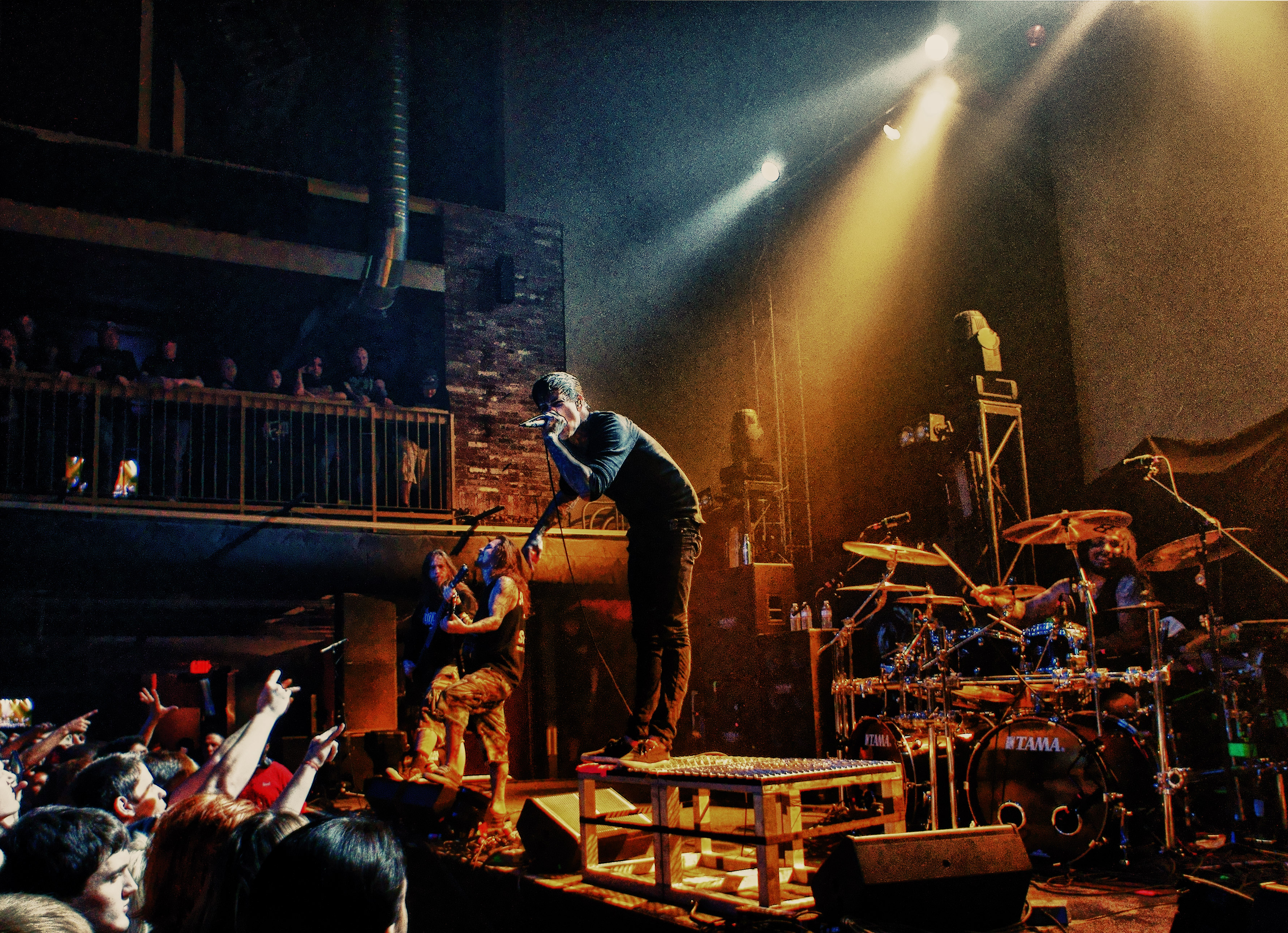 Suicide Silence at a concert in 2012.